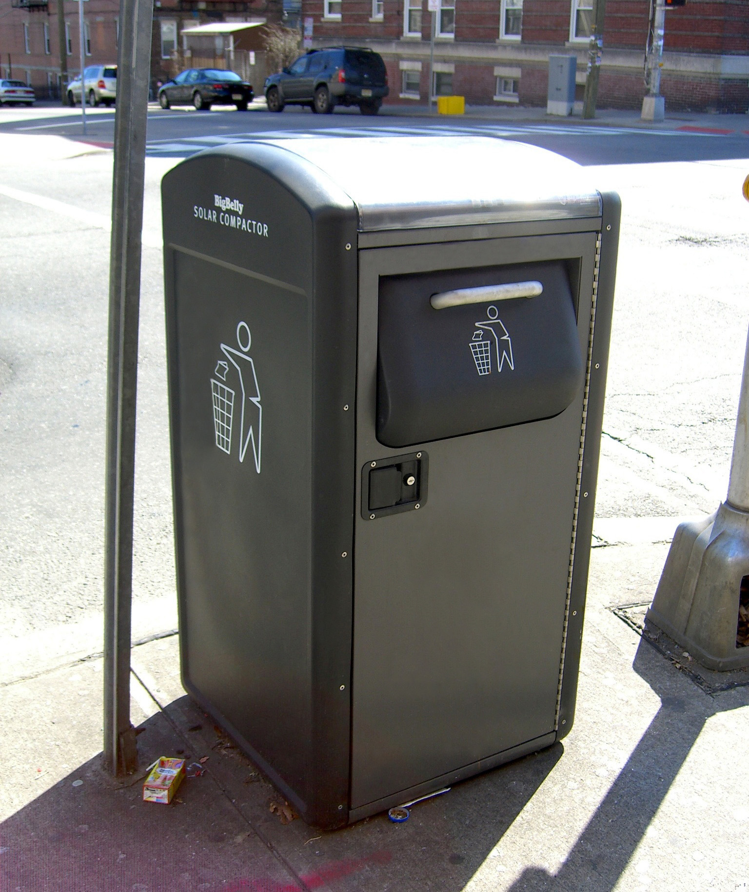 A solar-powered trash compactor on a residential corner in Jersey City, New Jersey. This photo was created by Luigi Novi. It is not in the public domain, and use of this file outside of the licensing terms is a copyright violation.